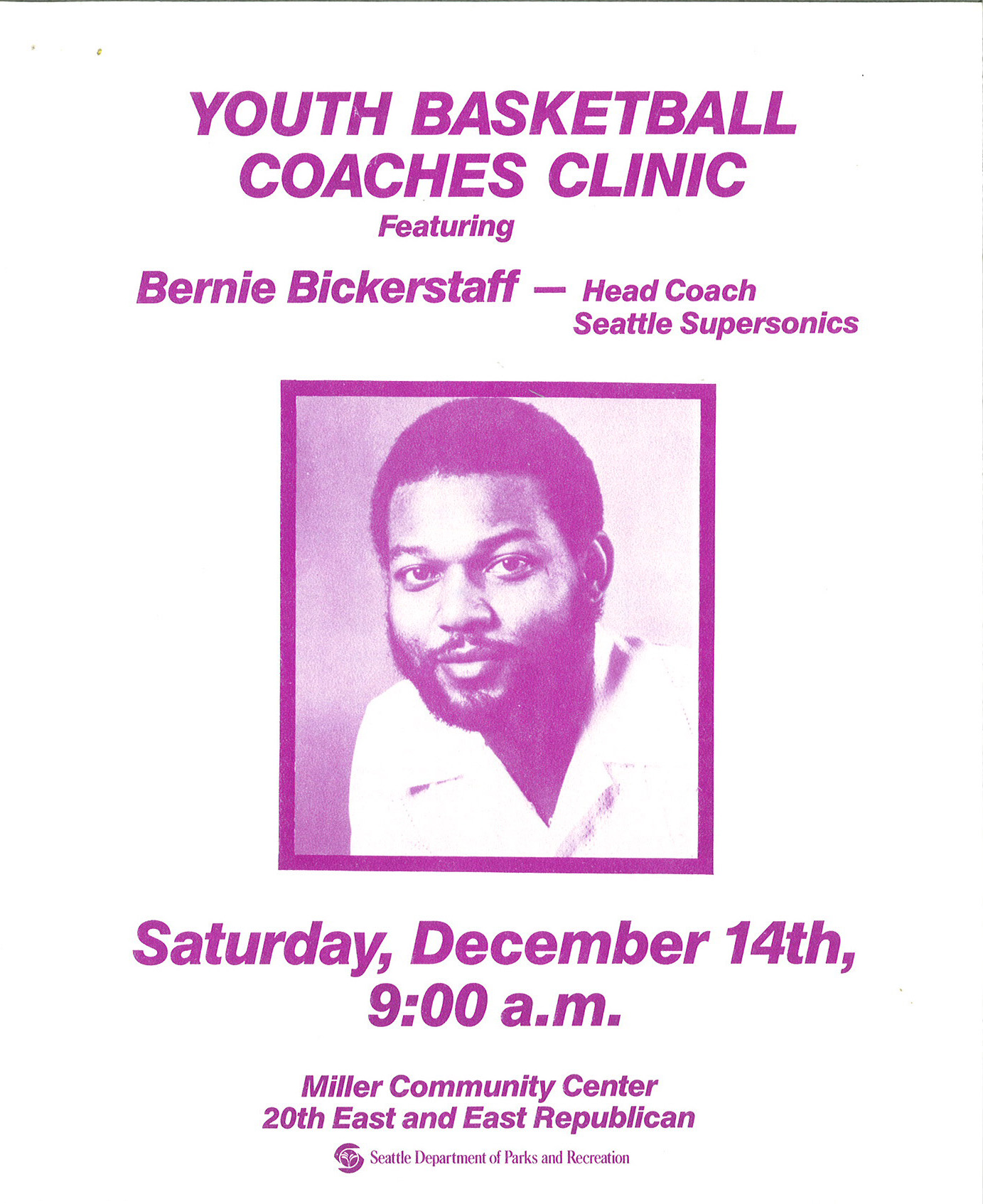 Featuring the Sonics' head coach, Bernie Bickerstaff. Found in folder "Youth Events," Recreation Program Schedules and Brochures (Record Series 5807-04), Seattle Municipal Archives .